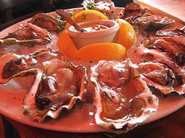 Oysters with Champagne Mignonette - Maximilien